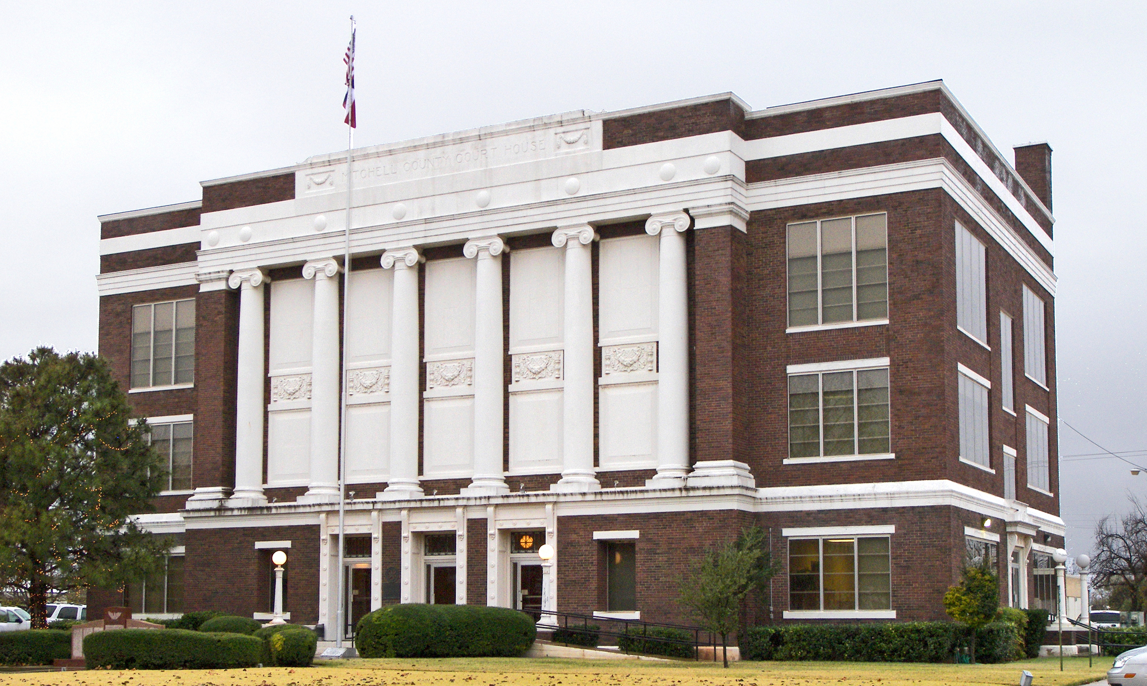 The Mitchell County Courthouse 400 Pine St, Colorado City, Texas, United States.